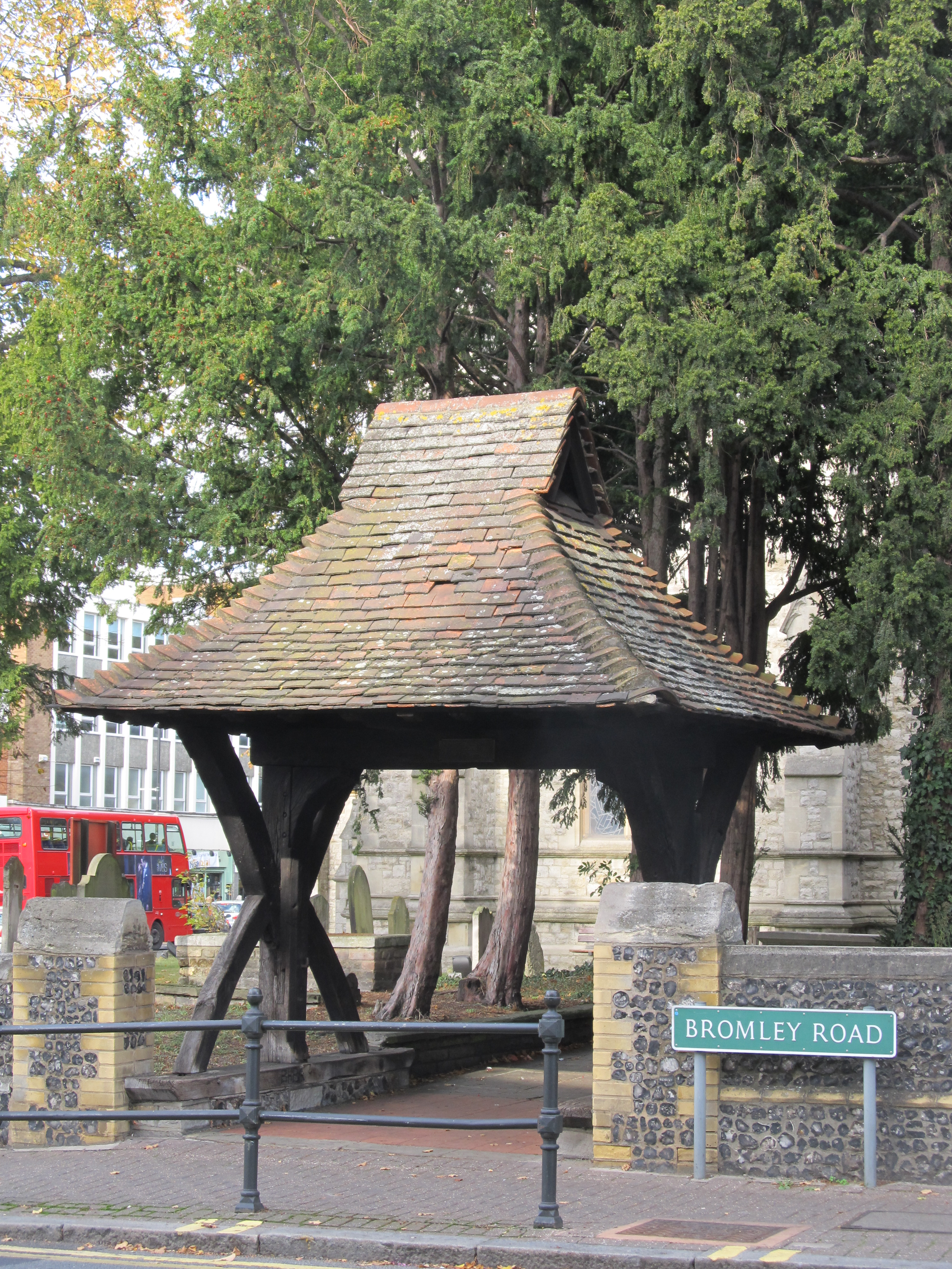 Lychgate at St George's Church, Beckenham, in the London Borough of Bromley.